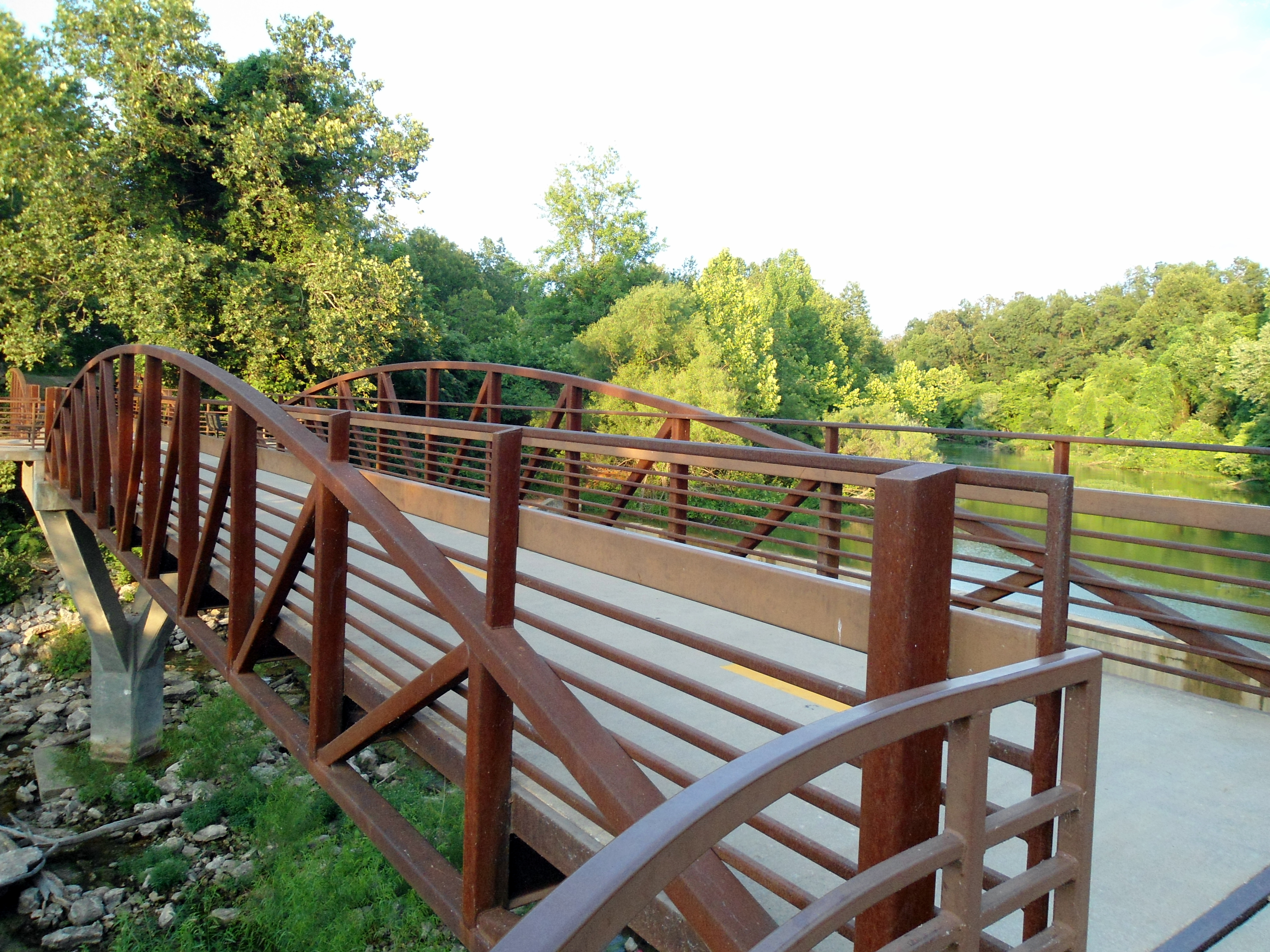 Bridge over Clear Creek just downstream of the Lake Fayetteville spillway